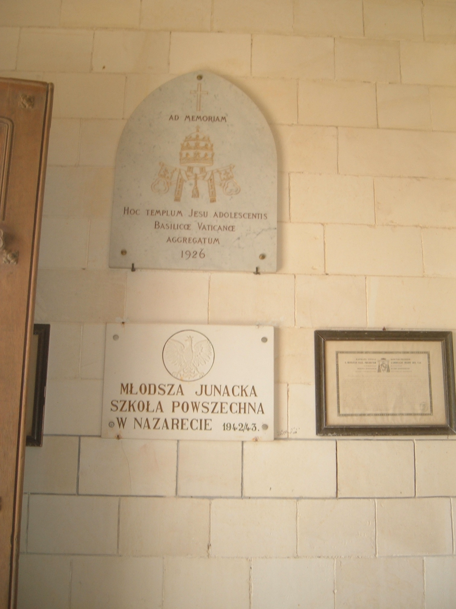 memorial plaques in Salesian church Nazareth לוחות זכרון בכנסייה הסלזיאנית בנצרת